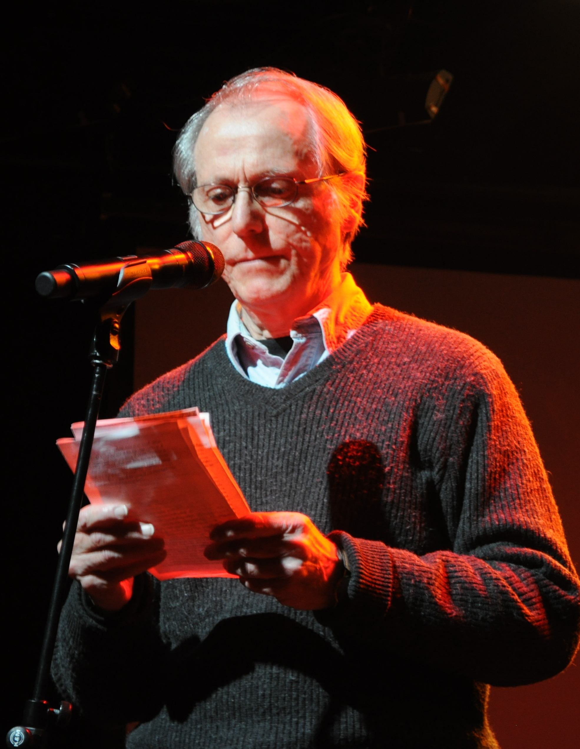 Cropped from the original